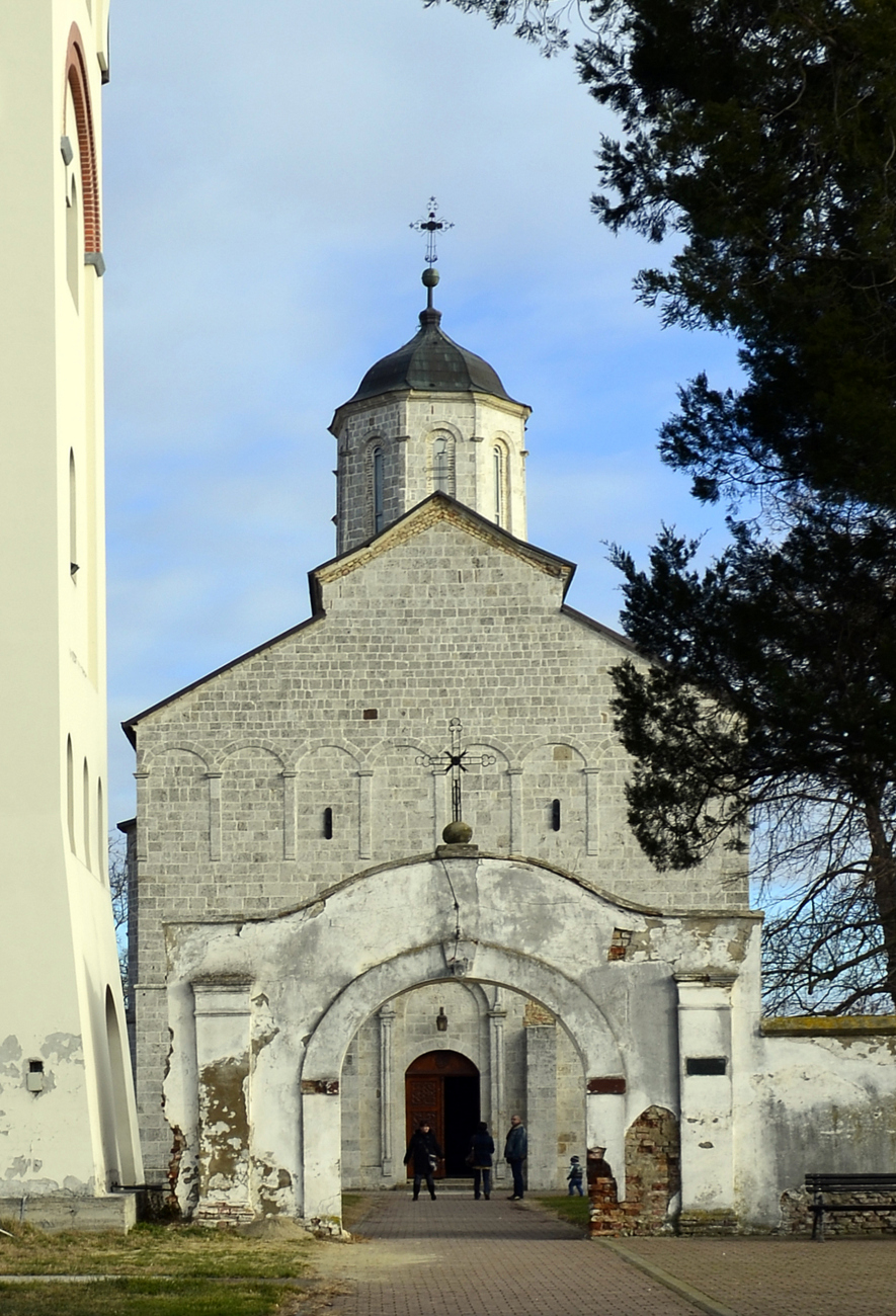 Kovilj Monastery, Serbia